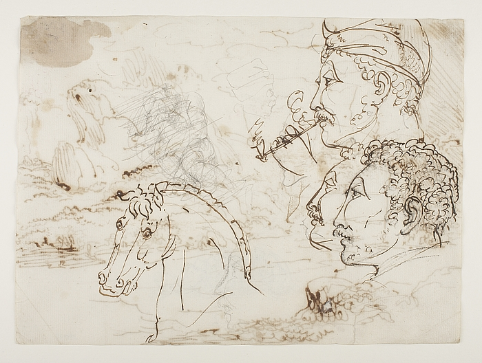 Portrait of Feodor Iwanowitsch Kalmyk (1763-1832), the painter-sculptor of Kalmyk origin, with the front part of a horse.